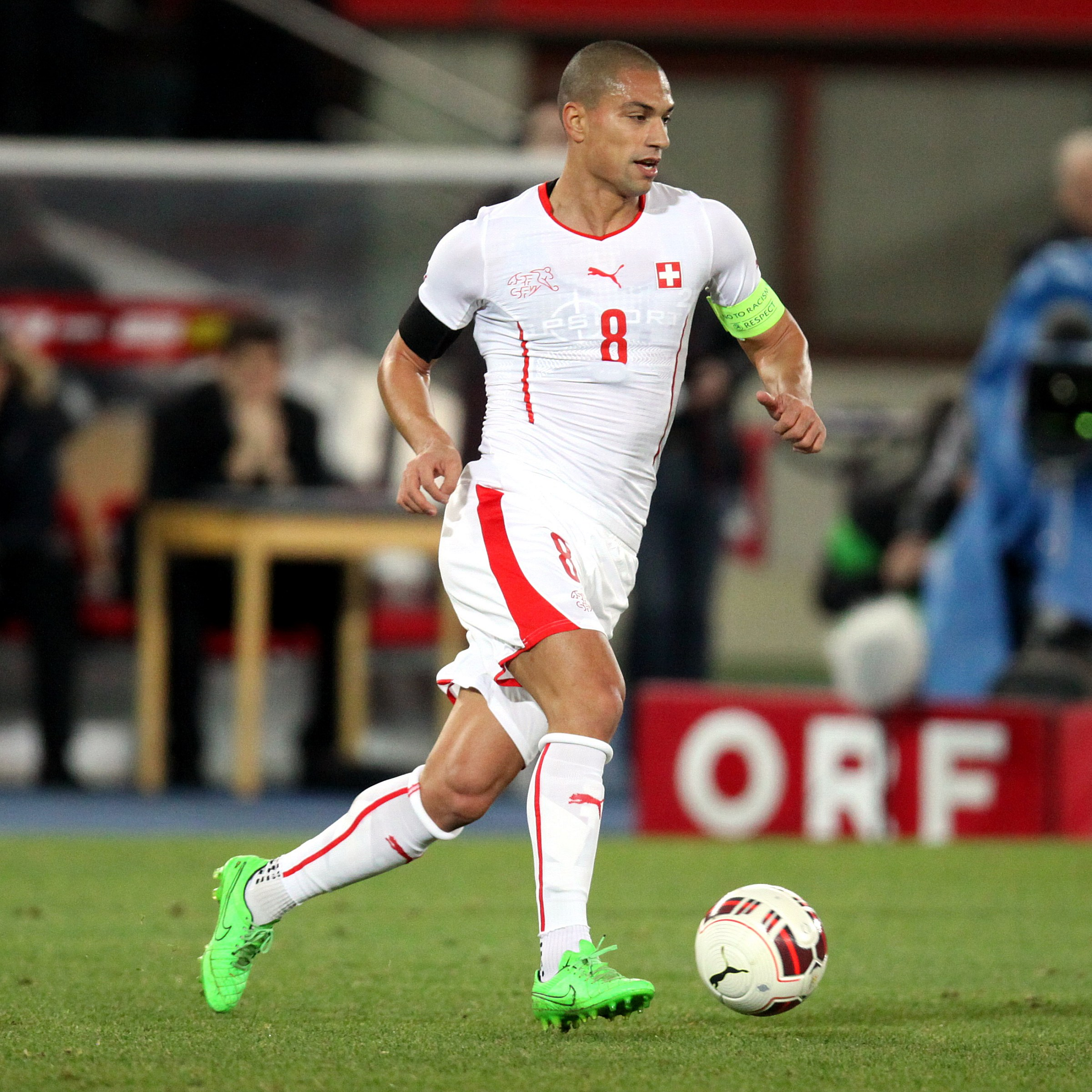 Friendly match – Austria (red shirts) vs. Switzerland (white shirts) 1-2 (1-2) – 2015-11-17 in Vienna, Ernst-Happel-Stadion – The photo shows Gökhan Inler.